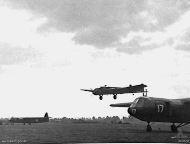 An Armstrong Whitworth Whitley glider tug coming in to land at RAF Brize Norton, where a Heavy Glider Conversion Unit was stationed. Airspeed Horsa gliders are visible on the ground.